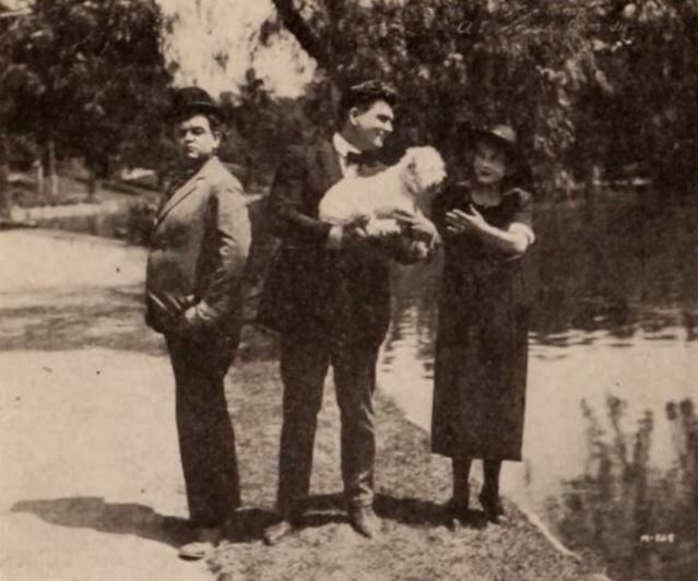 Still from the American comedy short film The Simp (1920) with Lloyd Hamilton, Otto Fries, and Marvel Rea, on page 72 of the October 30, 1920 Exhibitors Herald.